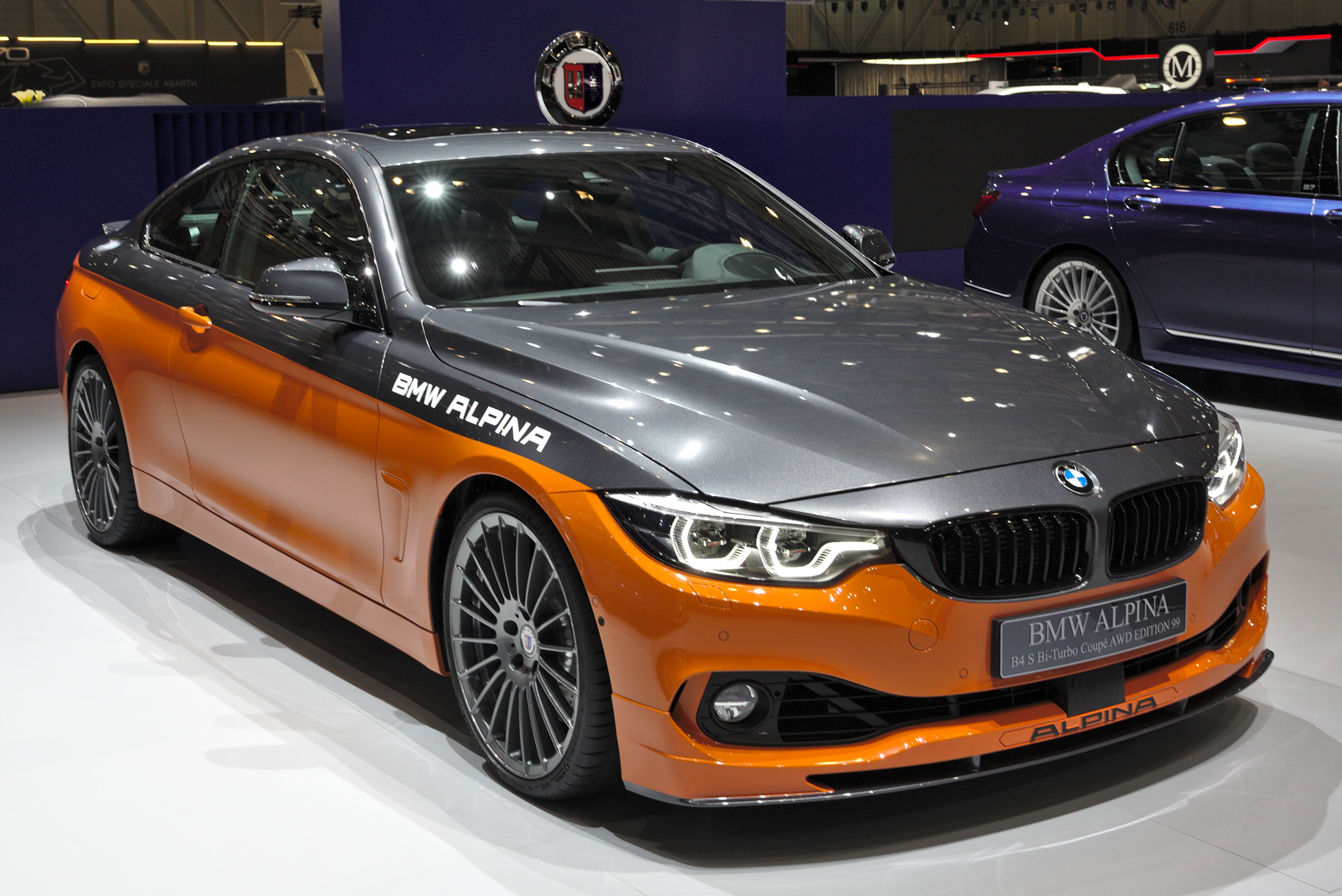 Alpina B4 S Bi-Turbo Edition 99 Coupé AWD at Geneva Motor Show 2019